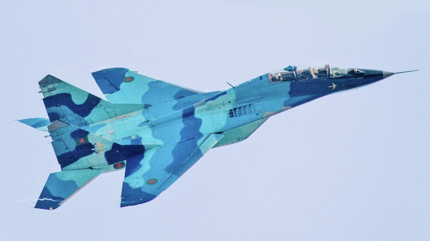 Mikoyan MiG-29 during Bangladesh Air Force Victory Day Flypast and Aerobatics Show 2016